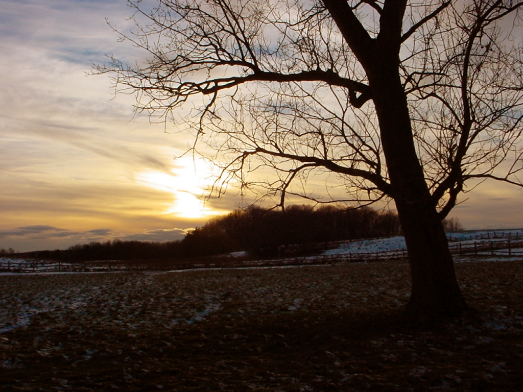 I took this photo on November 23, 2005 with a Sony Cyber-shot DSC-P50.